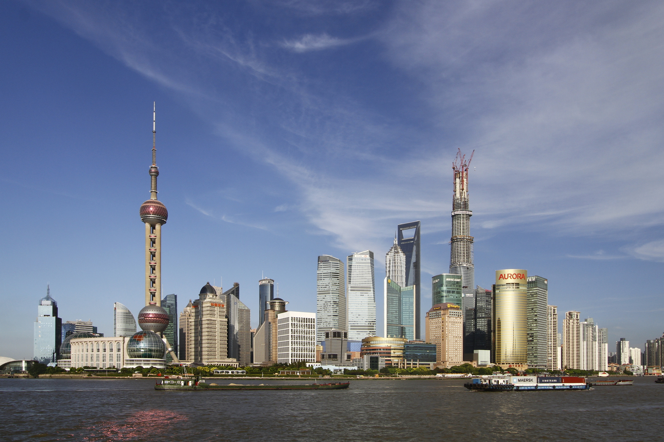 Lujiazui business district in Pudong, Shanghai